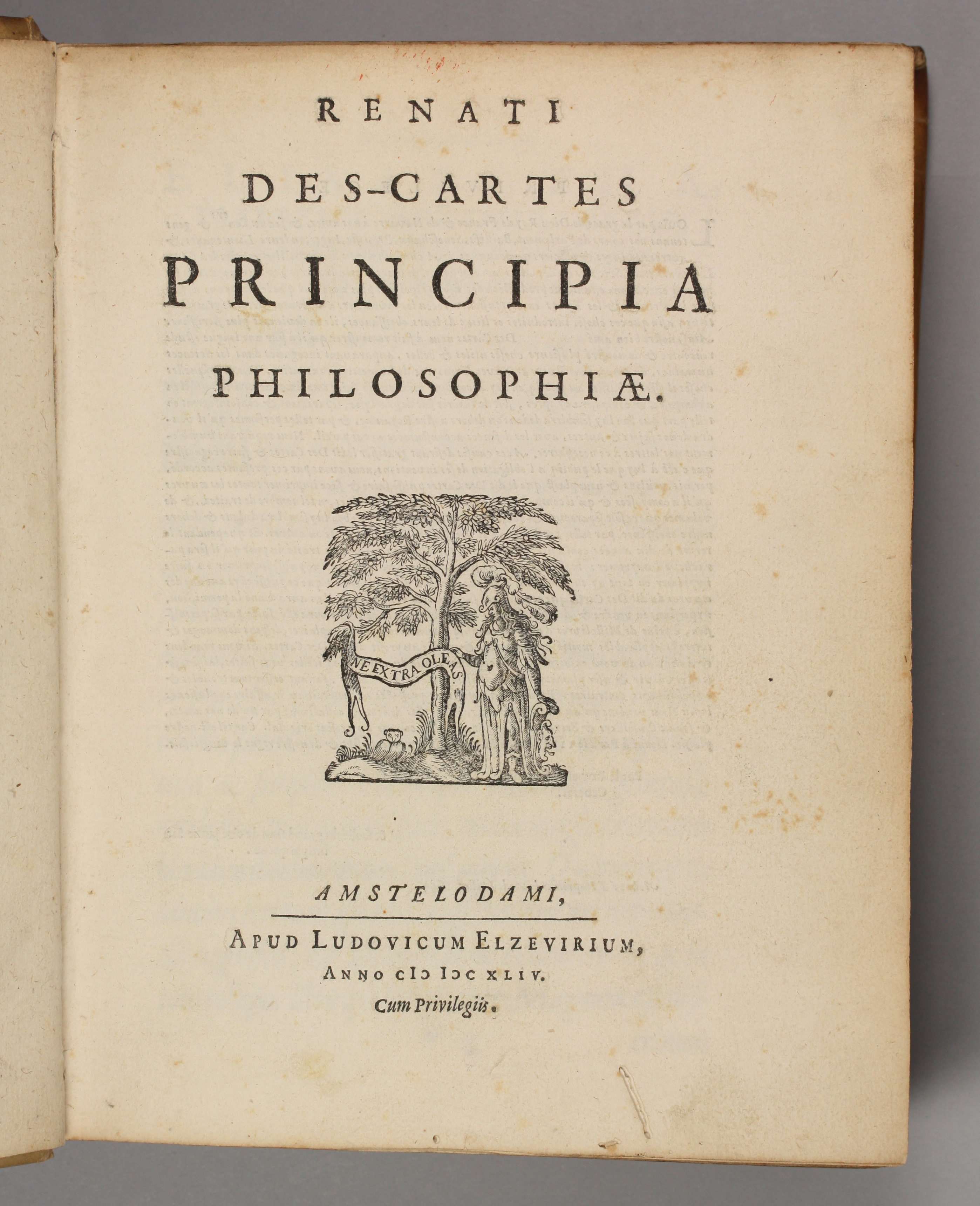 Title page of Renati Des-Cartes Principia philosophiae. Amstelodami : Apud Ludovicum Elzevirium, MDCXLIV [1644] Descartes was arguably the most influential natural philosopher of the Scientific Revolution. His work was central to the mechanical turn in science in which contact forces replaced Aristotelian causes as the basis for explanation.